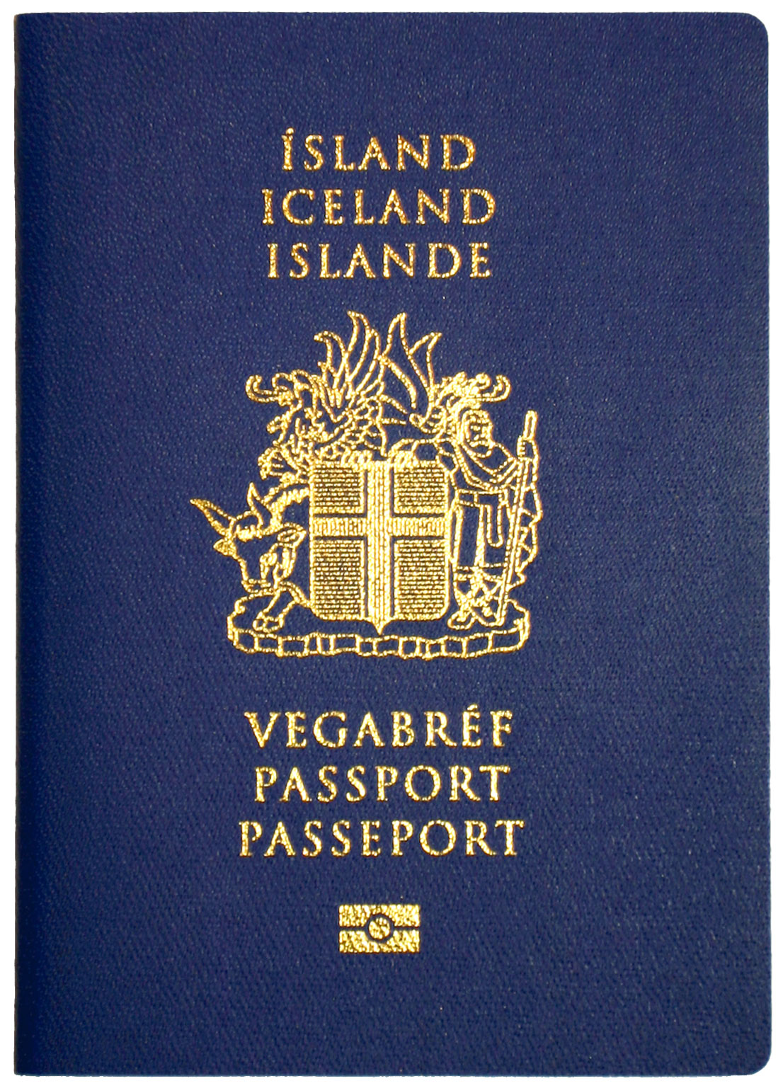 Front Cover of Icelandic Passport